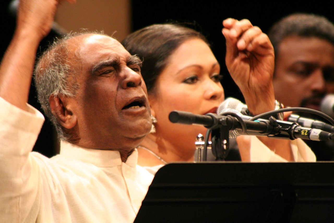 Photograph of acclaimed Sri Lankan Vocalist and Musical Composer,Pandit W. D. Amaradeva (පණ්ඩිත් ඩබ්ලිව්.ඩි.අමරදේව)